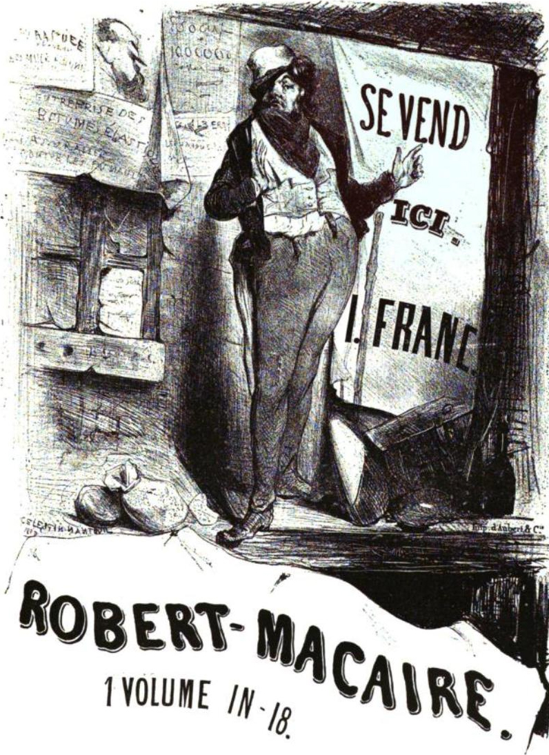 Poster by Célestin Nanteuil announcing the publication of Robert Macaire